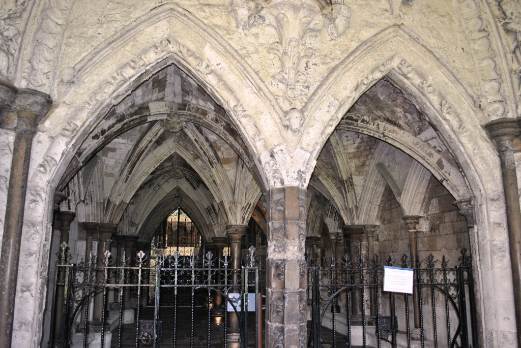 The Great Cloisters,including St Faiths Chapel,the Chapter House,the Parlour,numbers 1 and 2 the Cloisters,the Dark Cloisters and Dormitory with the Chapel of St Dunstan (school and Busby Library)